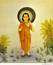 achriyaa vaman images